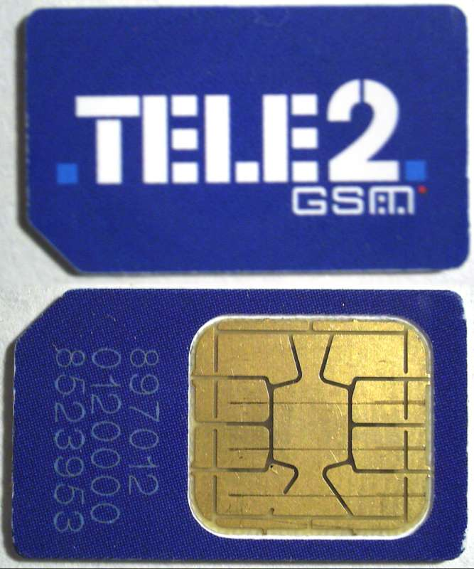 Tele2 sim cards.